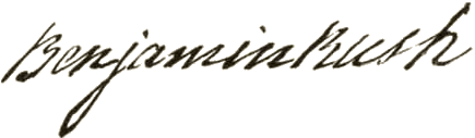 Benjamin Rush's signature